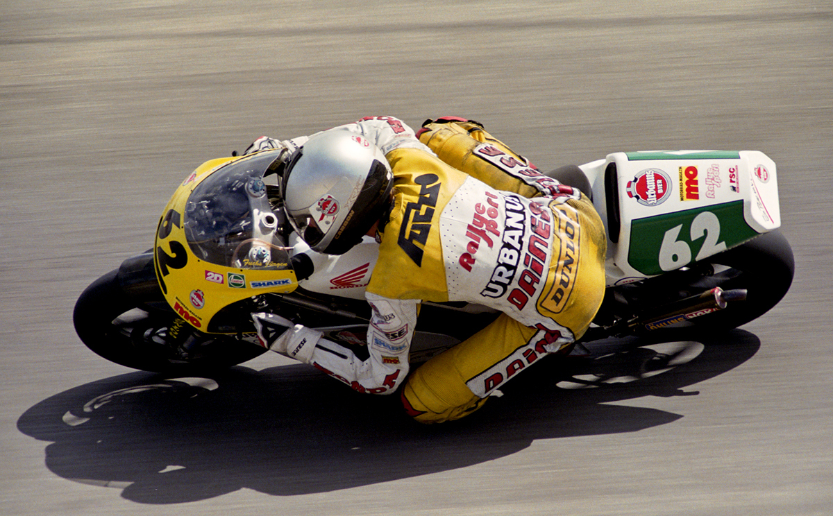 Jurgen Fuchs at the 1994 USGP